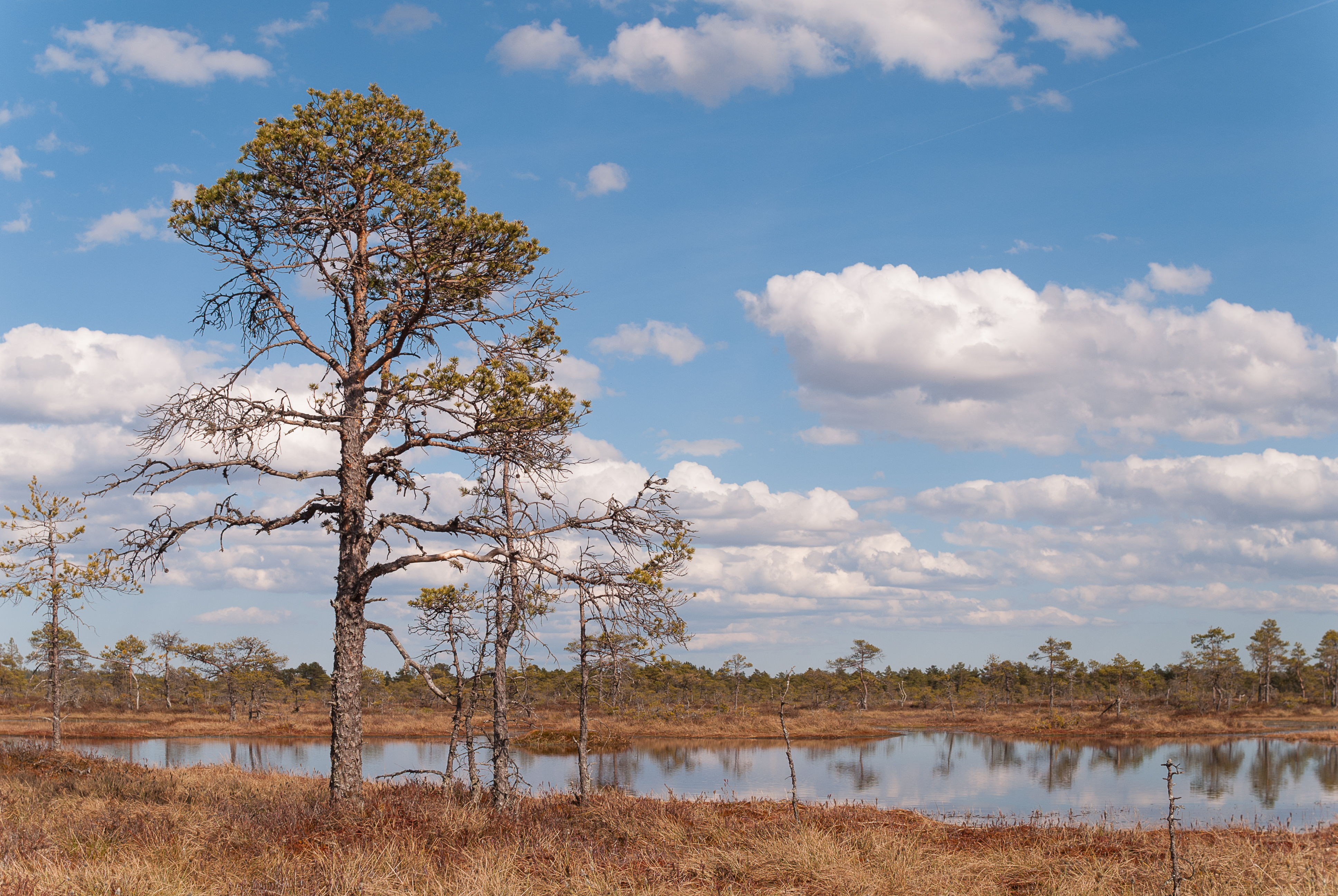 Kakerdaja bog at spring